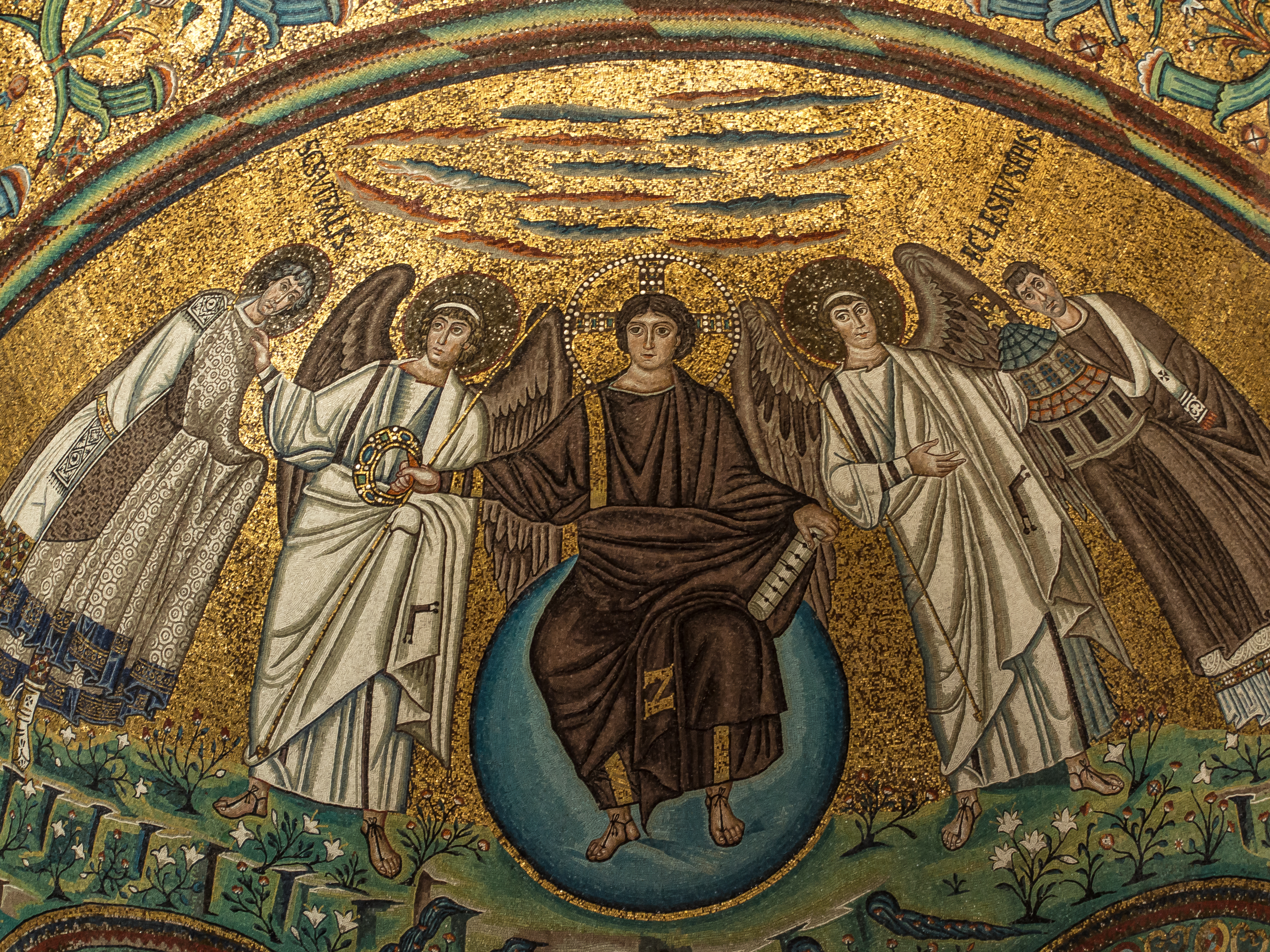 Ravenna - Basilica of San Vitale - mosaic Christ 2